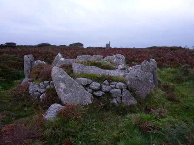 Bosiliack Barrow The Ding Dong mine can be seen in the background.